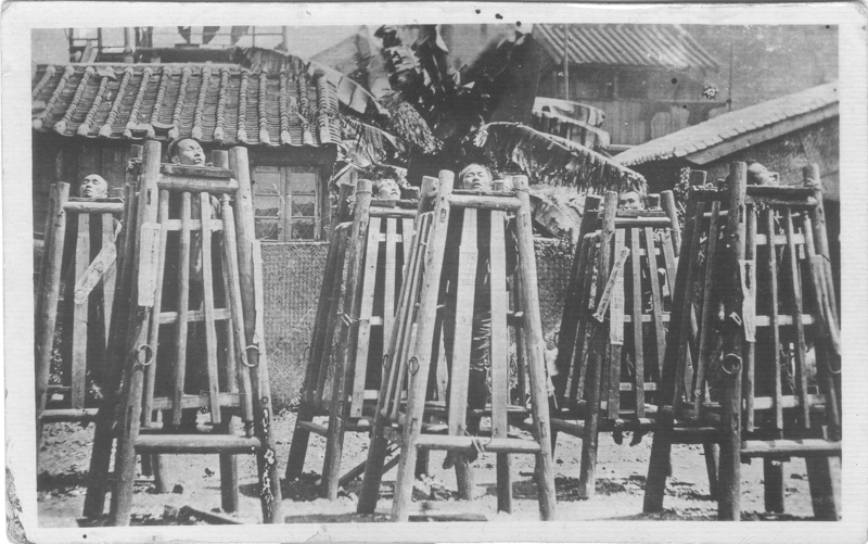 image shows examples of cangue cage torture/execution, where victims are suspended by their necks in a cage, with foot supports removed over time to slowly hang them.